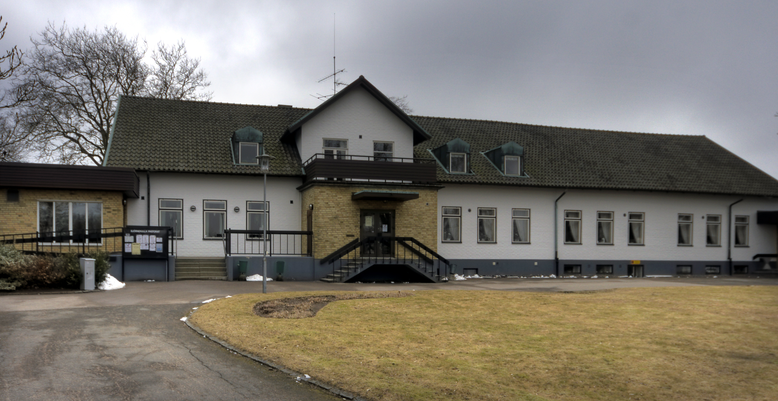 Björnekulla parish hall in Åstorp, Sweden.